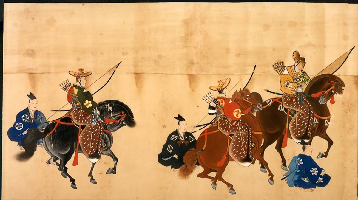 江戸時代の流鏑馬装束。穴八幡所蔵「流鏑馬絵巻」（1738年頃）部分。 Yabusame costume in Edo era. From "Yabusame-Emaki" (1738-). Ana Hachimangu collection.